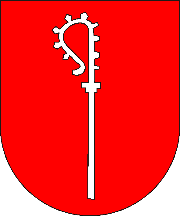 coat of arms